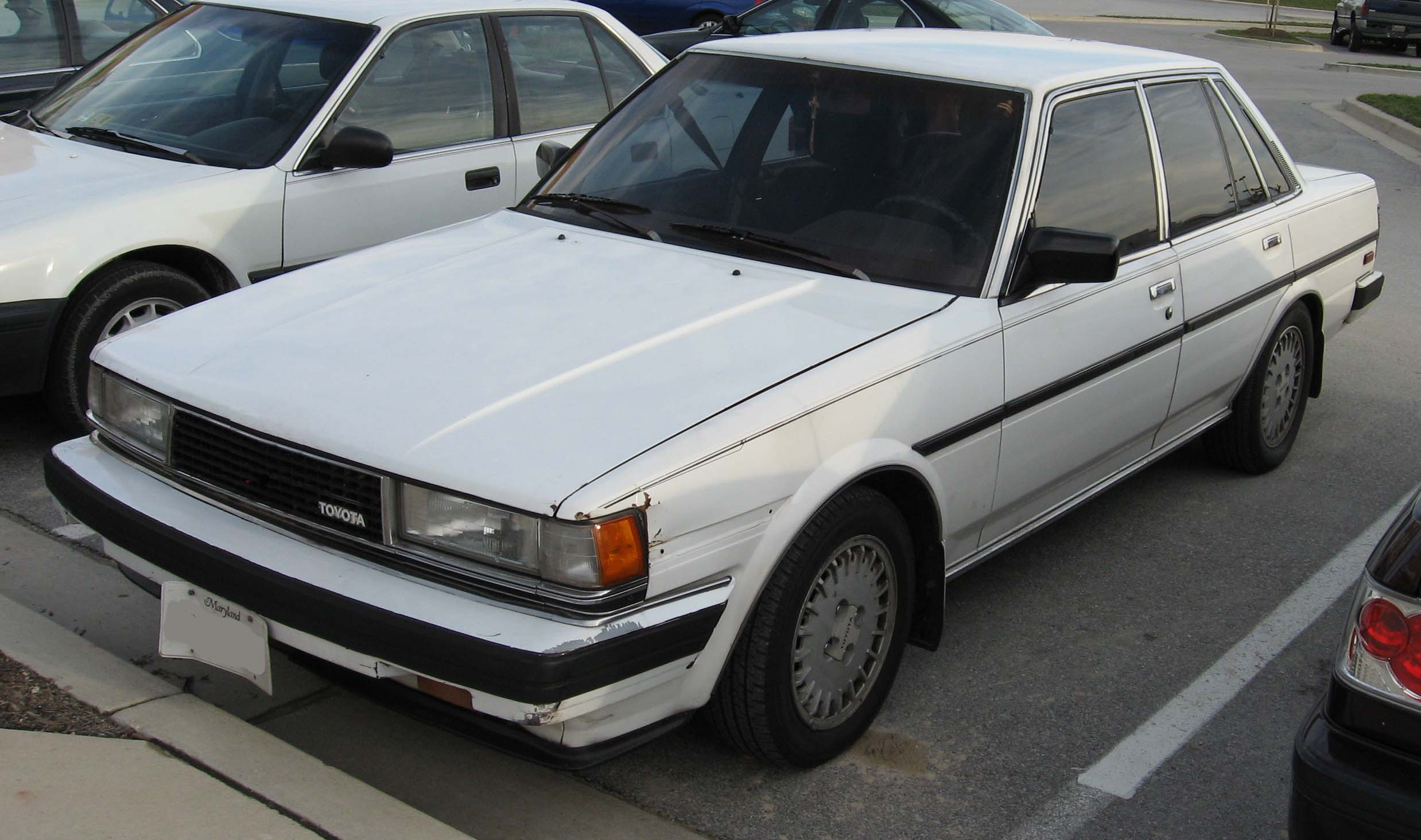 1985-1988 Toyota Cressida photographed in USA.